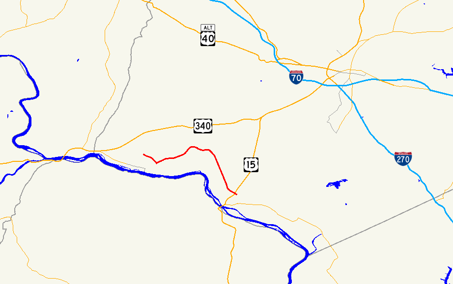 Map of Maryland Route 464